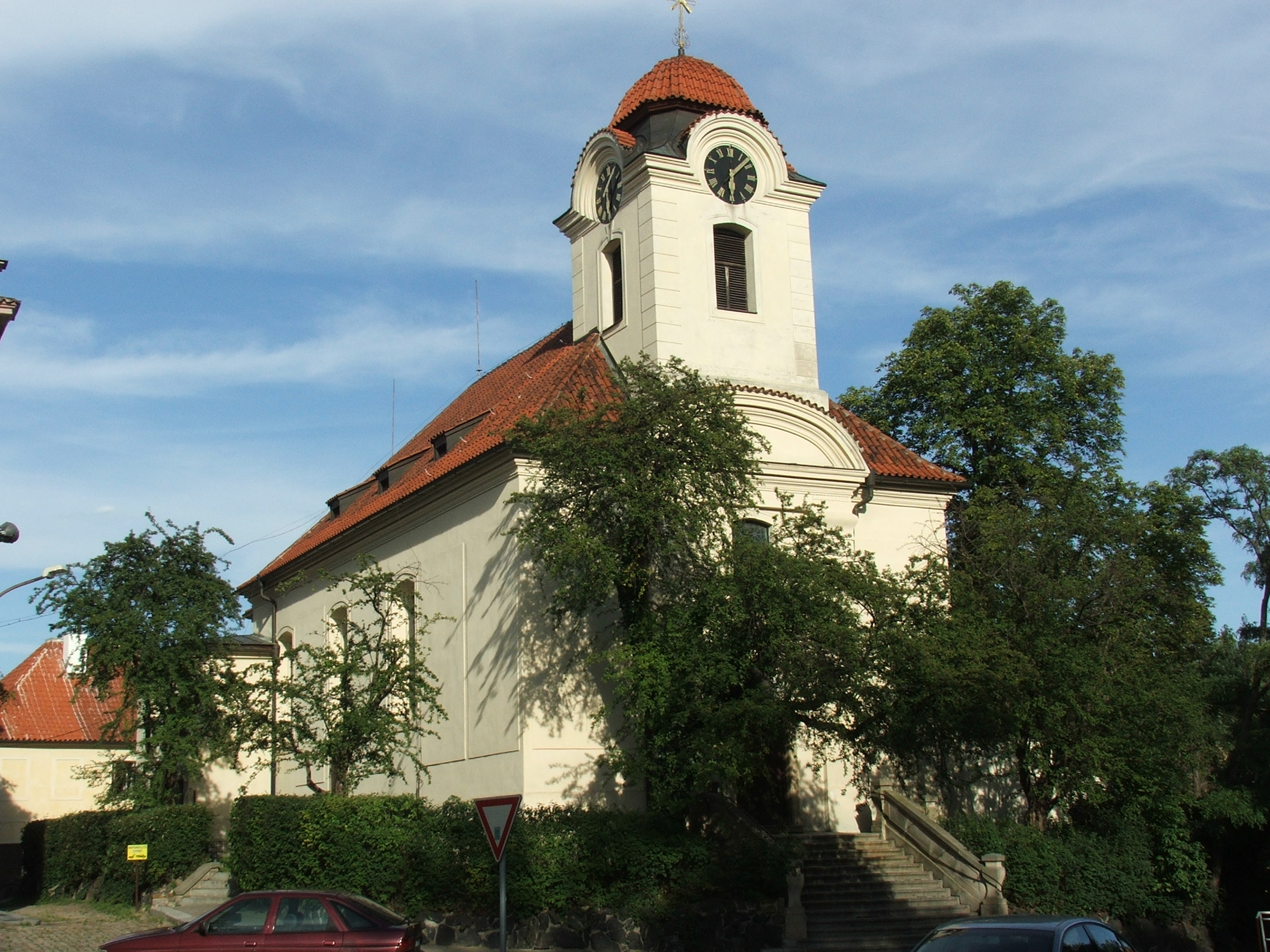 Church of St. Gotthard - in Bubeneč Prague (Czechia). Built in 1801.